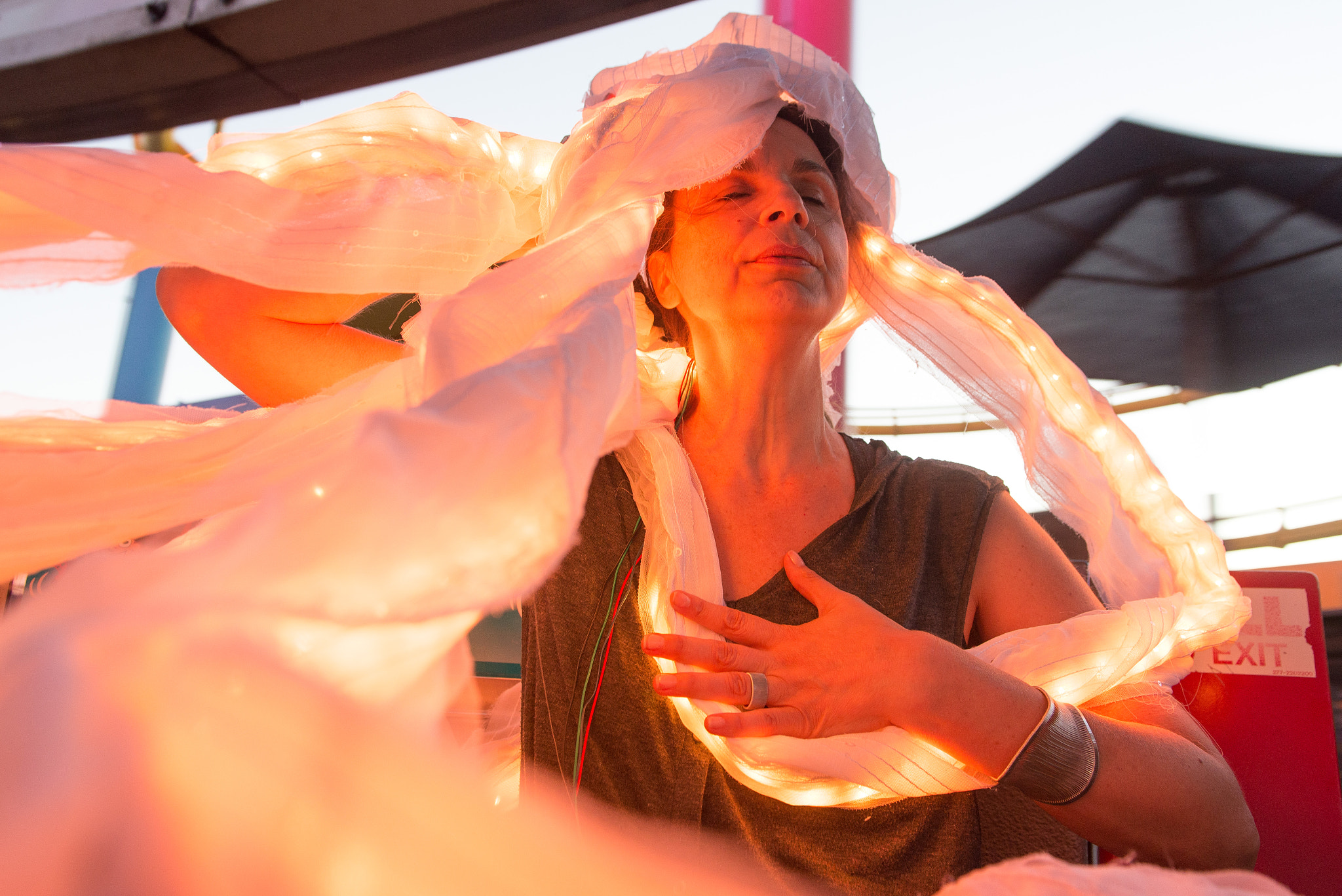 500px provided description: Victoria Vesna, a professor for UCLA Design Media Arts, created an original piece of art to present as a keynote at the Santa Monica Glow art event Saturday, where participants will also occupy the Santa Monica Pier?s ferris wheel. (Santa Monica, CA)